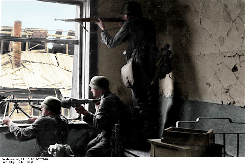 This is a retouched picture, which means that it has been digitally altered from its original version. Modifications: recolored. The original can be viewed here: Bundesarchiv Bild 101I-617-2571-04, Stalingrad, Soldaten beim Häuserkampf.jpg: . Modifications made by Ruffneck88. Stalingrad, Soldaten beim Häuserkampf Photographer OlligArchive description Description provided by the archive when the original description is incomplete or wrong. You can help by reporting errors and typos at Commons:Bundesarchiv/Error reports. Sowjetunion, Stalingrad.- Drei deutsche Soldaten in einem Gebäude mit Maschinengewehr 34 (MG 34) und Gewehr aus einem Fenster schießend; PK KBK Lw zbVTitle Stalingrad, Soldaten beim Häuserkampf Depicted place StalingradDate 23 September 1942date QS:P571,+1942-09-23T00:00:00Z/11Collection German Federal Archives Native nameDas BundesarchivLocationKoblenz (headquarters)Coordinates50° 20′ 32.71″ N, 7° 34′ 21.22″ E Established1946Web page control : Q685753 VIAF: 137346469 ISNI: 0000 0004 0555 2728 LCCN: n92025526 NLA: 36455393 Open Library: OL55798A WorldCat institution QS:P195,Q685753Current location Propagandakompanien der Wehrmacht - Heer und Luftwaffe (Bild 101 I)Accession number Bild 101I-617-2571-04 Source This image was provided to Wikimedia Commons by the German Federal Archive (Deutsches Bundesarchiv) as part of a cooperation project. The German Federal Archive guarantees an authentic representation only using the originals (negative and/or positive), resp. the digitalization of the originals as provided by the Digital Image Archive.